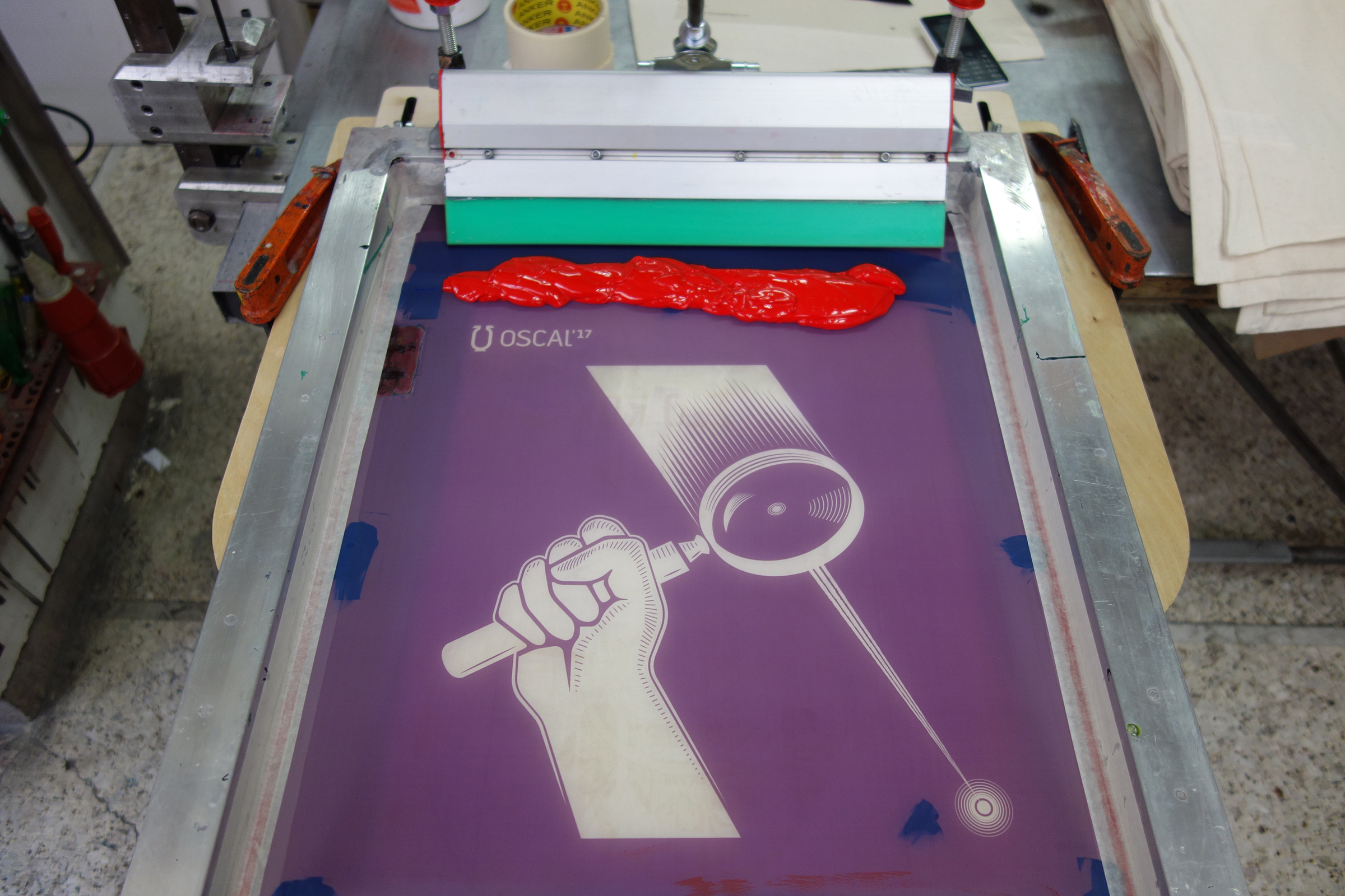 Photos from the production process of the promo materials (posters and tote bags) of the fourth edition of Open Source Conference Albania that takes place in Tirana Albania in the second weekend of May 2017. The materials were printed using the silkscreen method.